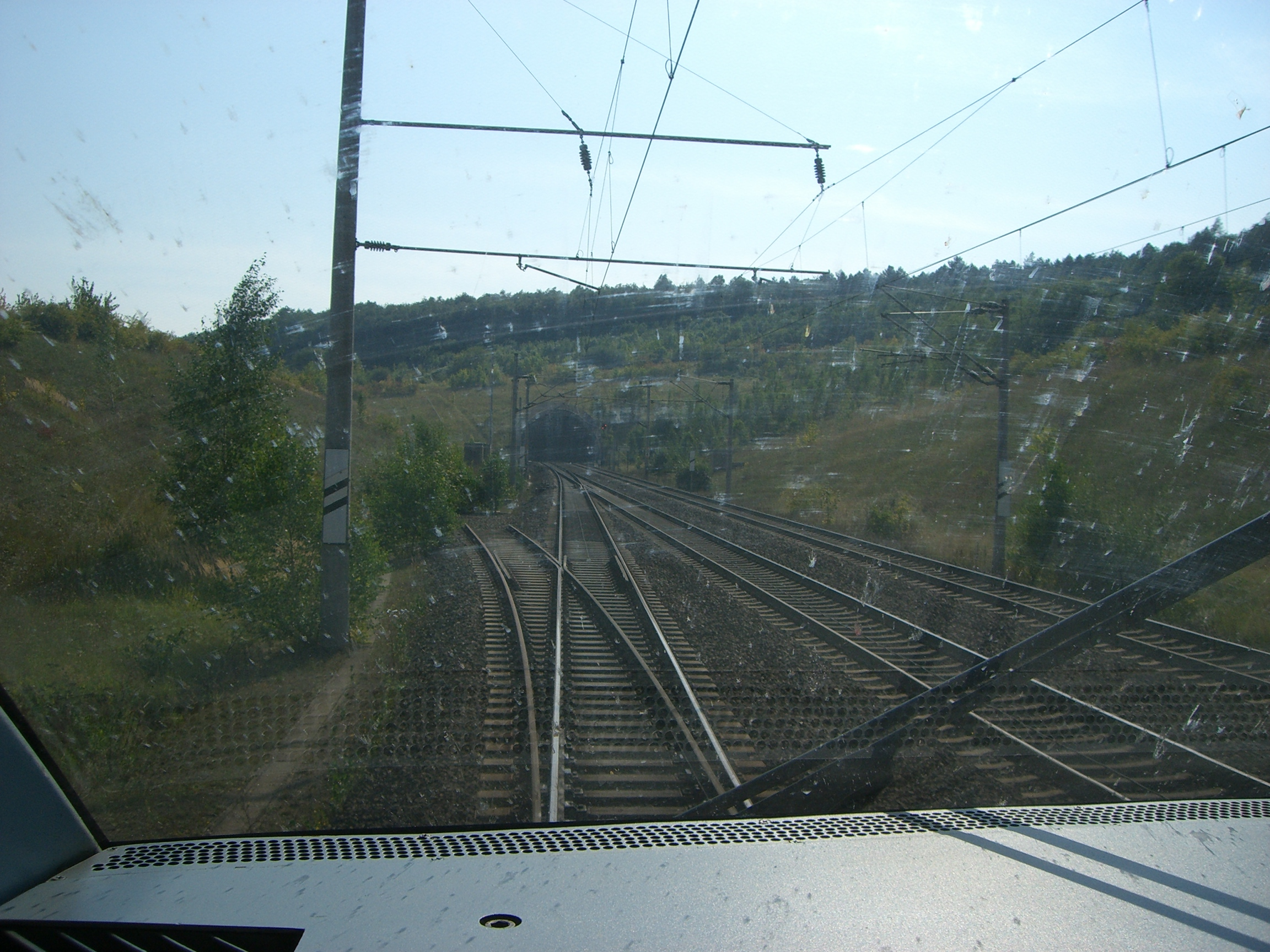 The southern end of the "Hildesheimer Schleife" railway line near Hannover, Germany, where it connects with the Hannover-Würzburg high-speed line